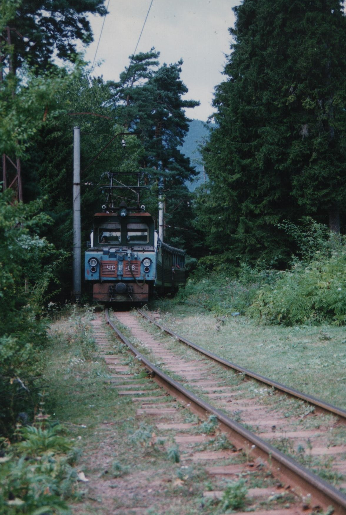 A small train in a remote area of Georgia